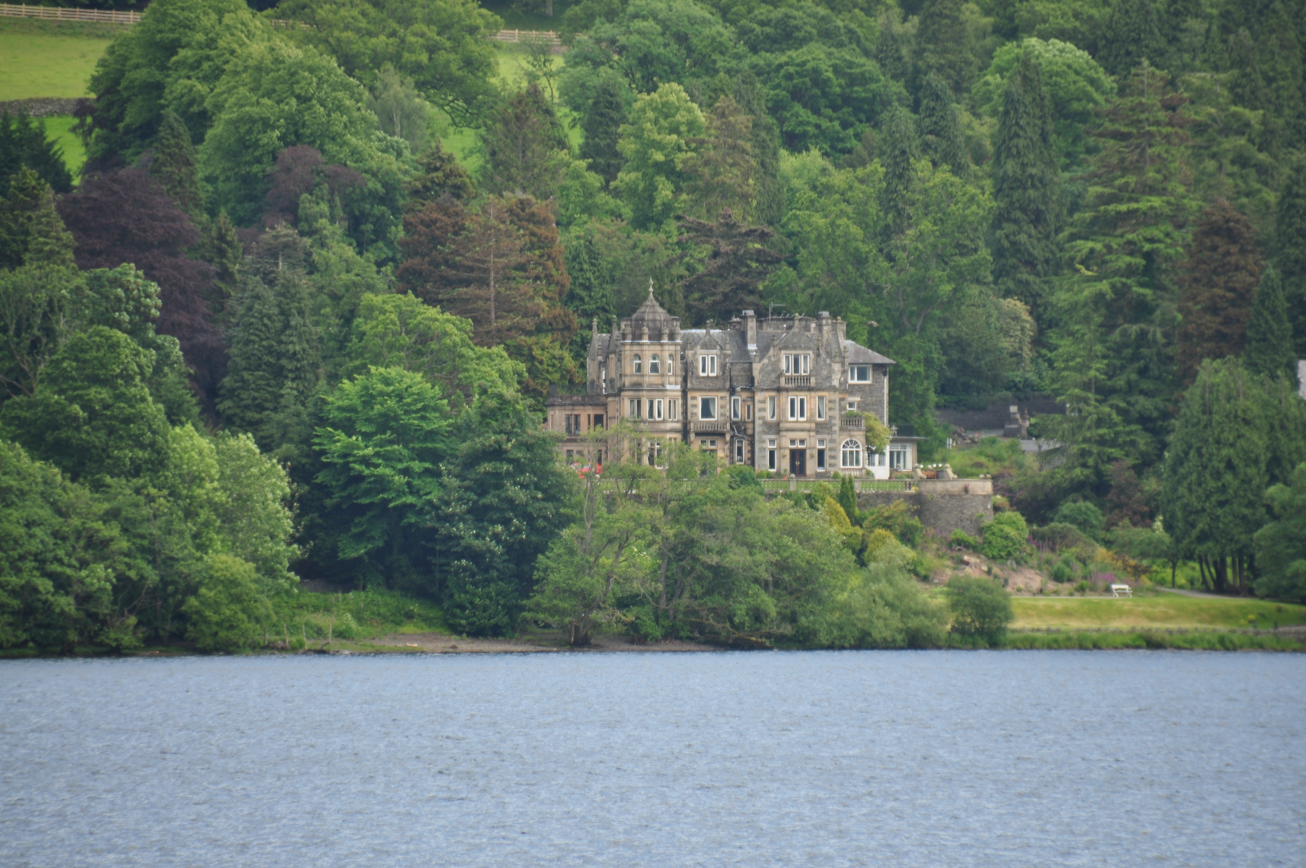 Buildings by Windermere